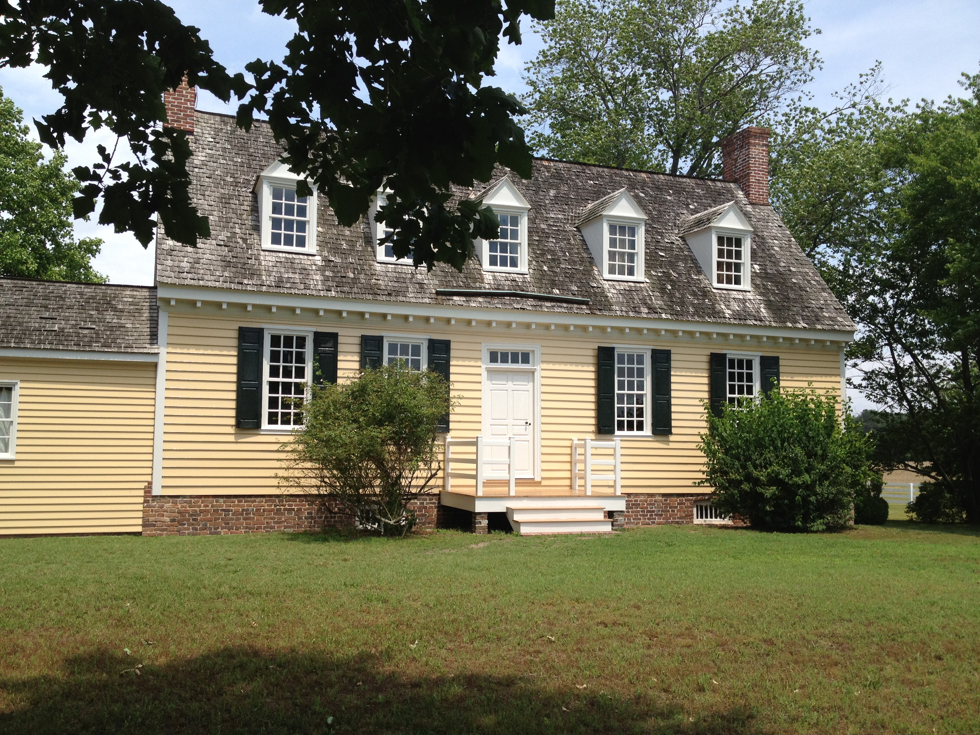 An exterior image of the main house at Long Hill. The house was built around 1767.